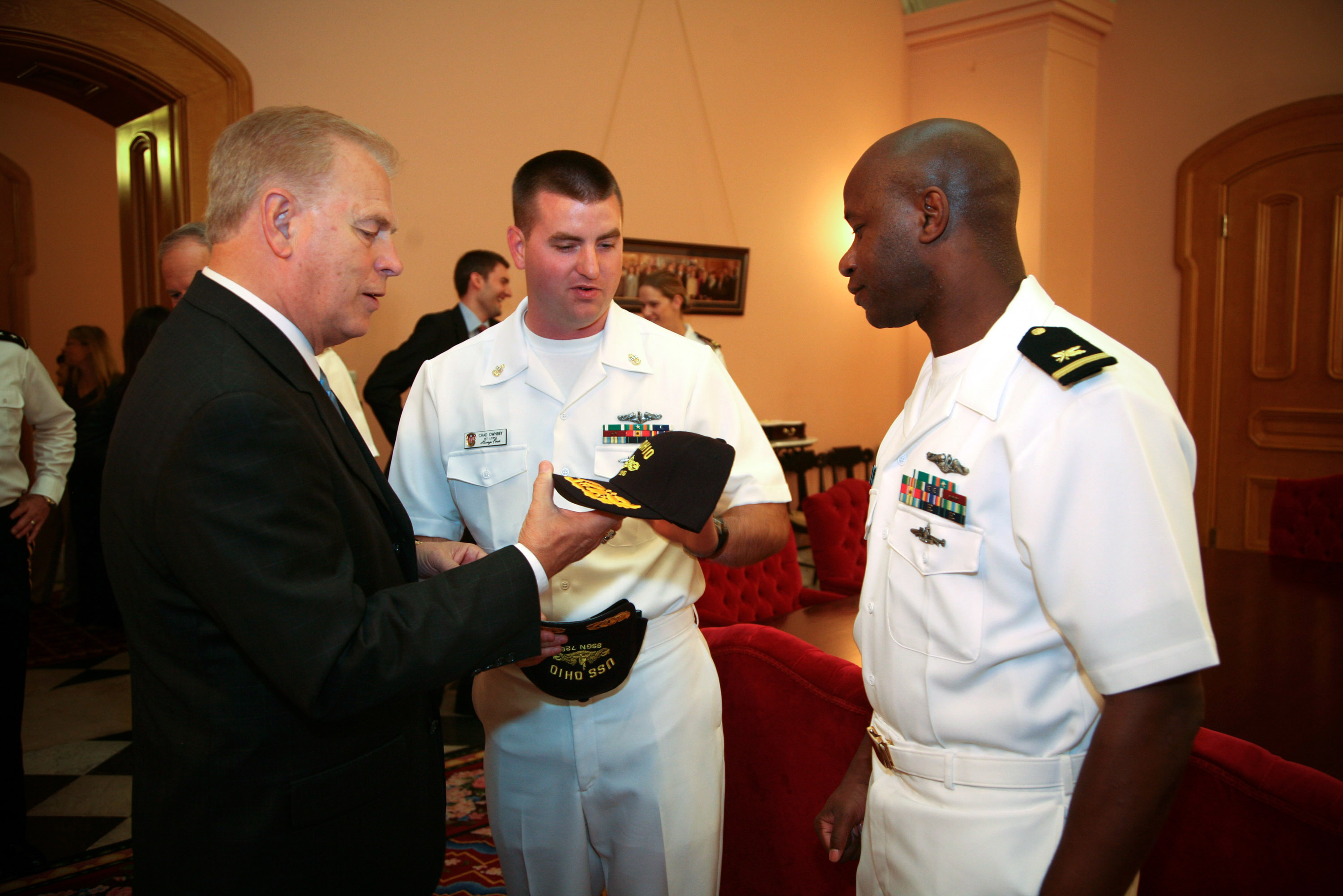 COLUMBUS, Ohio (Sept. 4, 2009) Ensign Dewayne Thomas and Chief Missile Technician Chad Ownbey, both assigned to the guided-missile submarine USS Ohio (SSGN-726), present Ohio Governor Ted Strickland with a command ball cap. The two were on hand for a proclamation given by the governor for Central Ohio Navy Week, one of 21 Navy Weeks planned across America in 2009. Navy Weeks are designed to show Americans the investment they have made in their Navy and increase awareness in cities that do not have a significant Navy presence. (U.S. Navy photo by Senior Chief Mass Communication Specialist Gary Ward/Released)